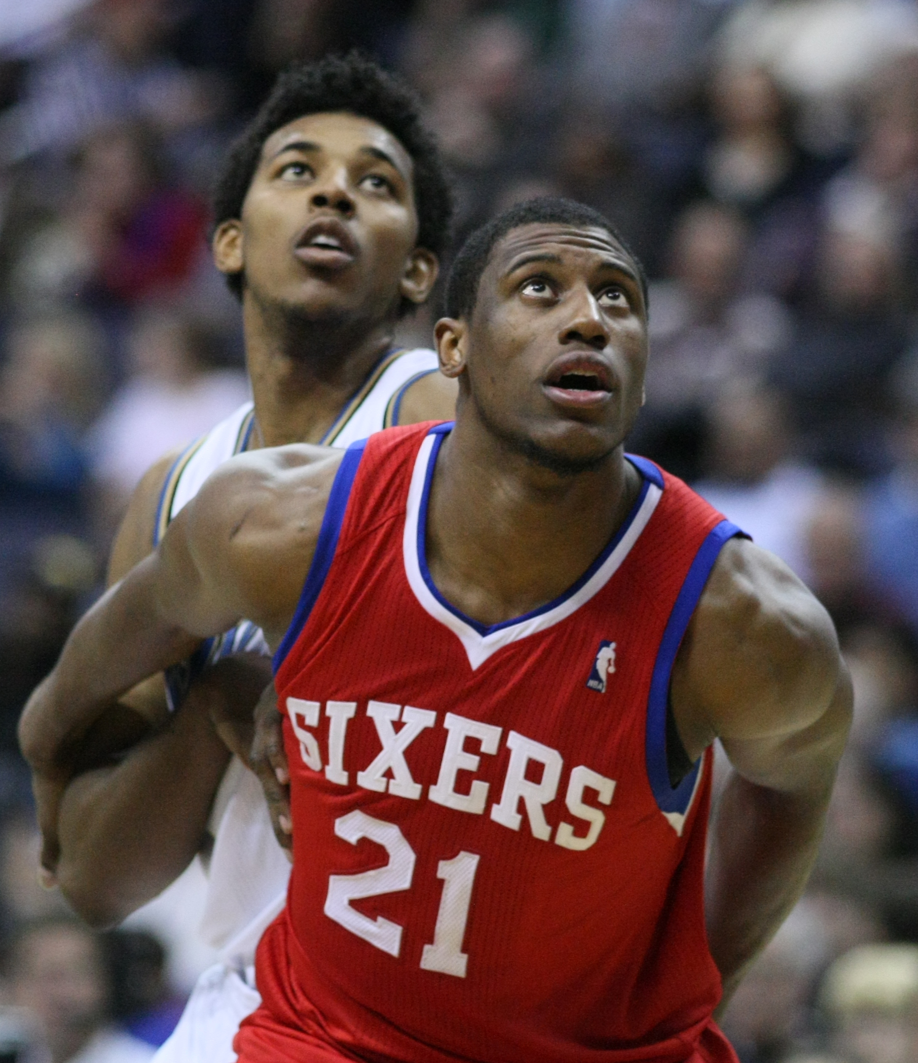 Washington Wizards v/s Philadelphia 76ers November 23, 2010